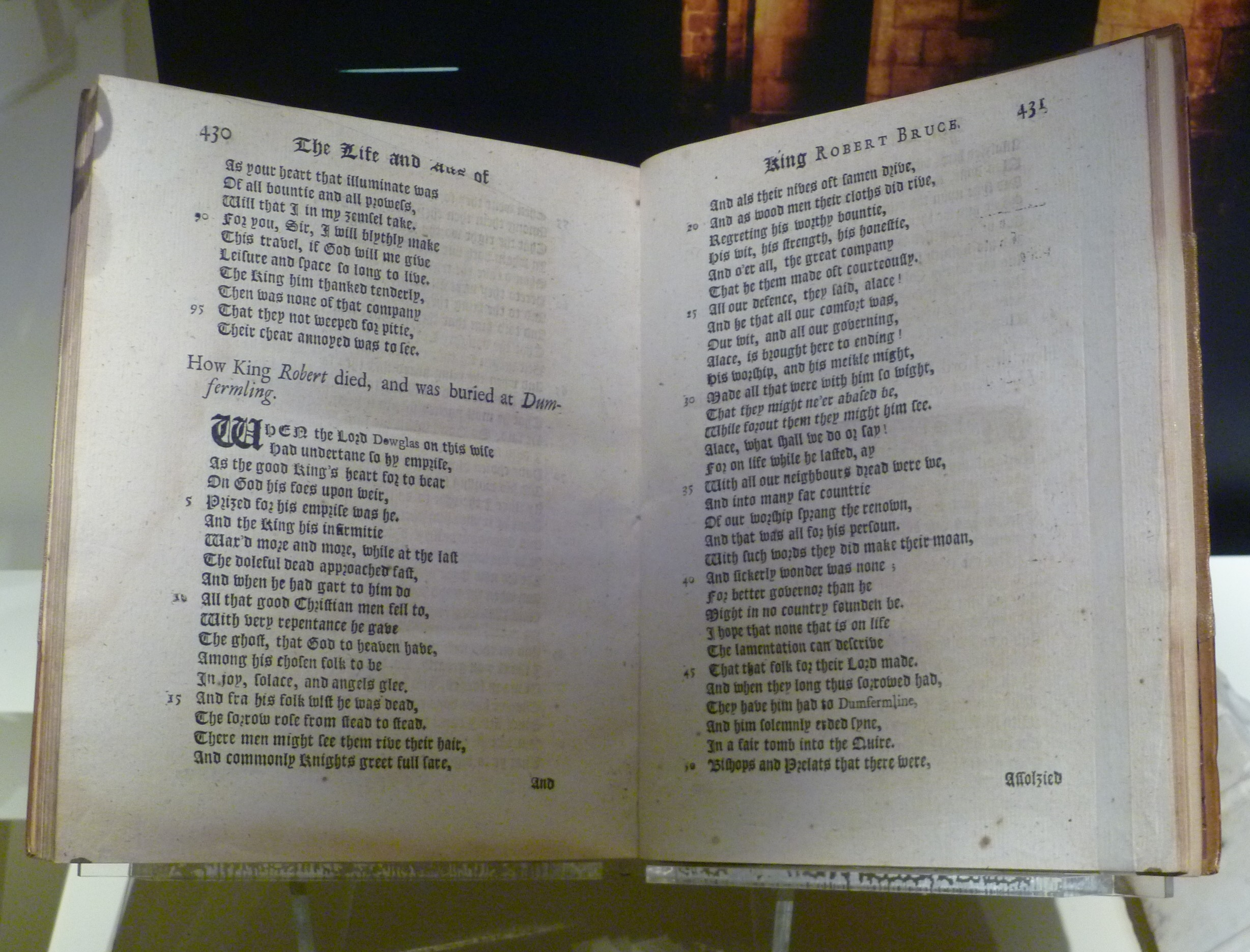 An 18thC edition of John Barbour's epic poem The Bruce in the National Museum of Scotland. It is open at the page which describes the people's grief at the death of Bruce. And when folk heard that he was dead From home to home the sorrow spread. Then might one see men tear their hair, And wring their hands in deep despair; And knights were seen to weep full sore And madly rend the clothes they wore; Lamenting for his nobleness, His wisdom, honour, manliness; Above all for his company That he bestowed so courteously. "Alas!" they said, "our leader just, Our king in whom was all our trust, Our strength, our wisdom in defence, All these have now been taken hence! His valour and his strength was such, And fired his followers so much, That every heart with courage shone While he was there to lead them on. Alas! What shall we say or do? For while he was alive 'tis true That all our neighbours feared our hand. In many a far and foreign land Our valiant exploits won renown; And all was due to him alone!" [modern translation by A. A. H. Douglas (1964)]